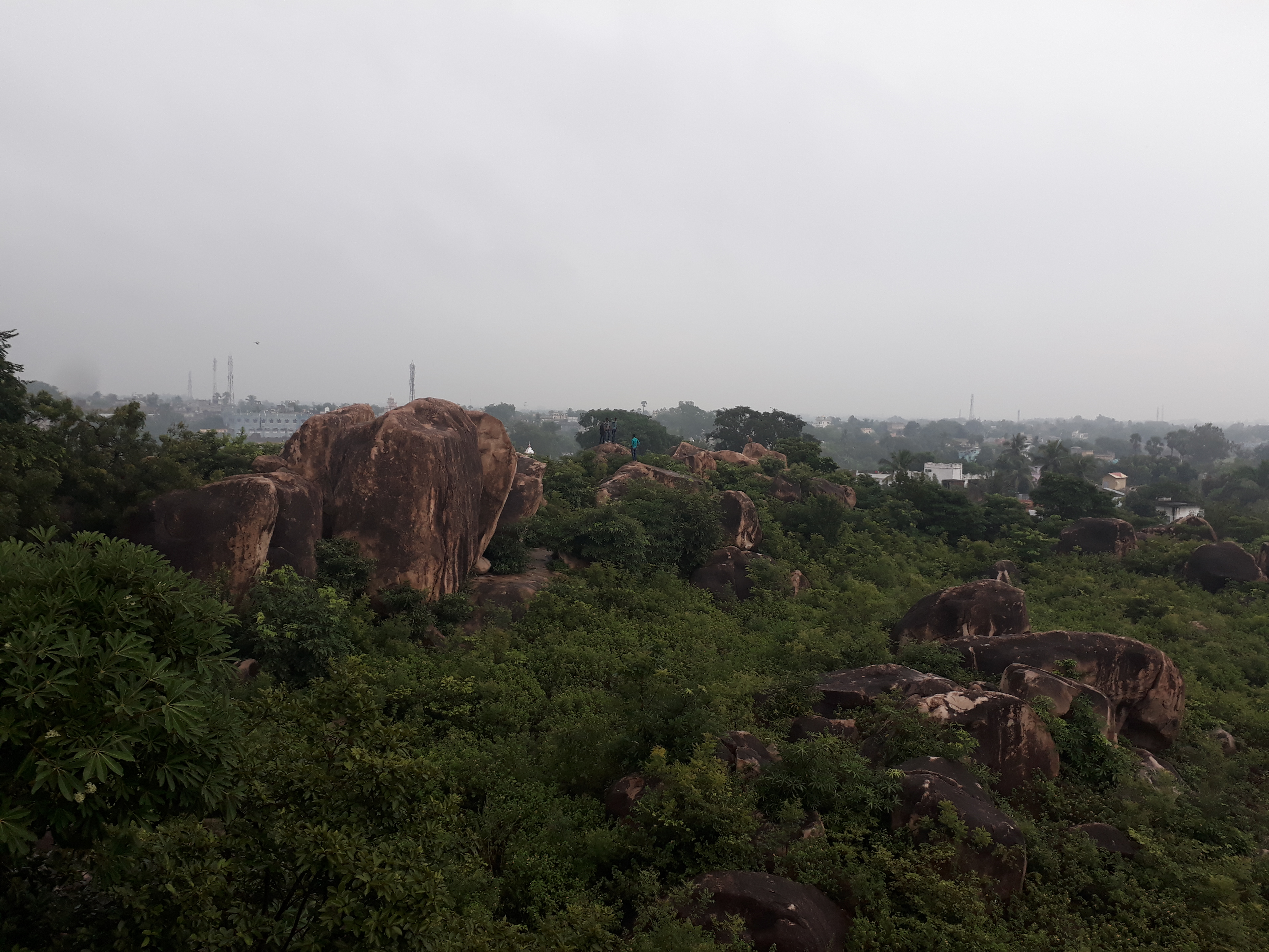 Mama Bhagne Hills and Temple in Dubrajpur town, Birbhum, West Bengal